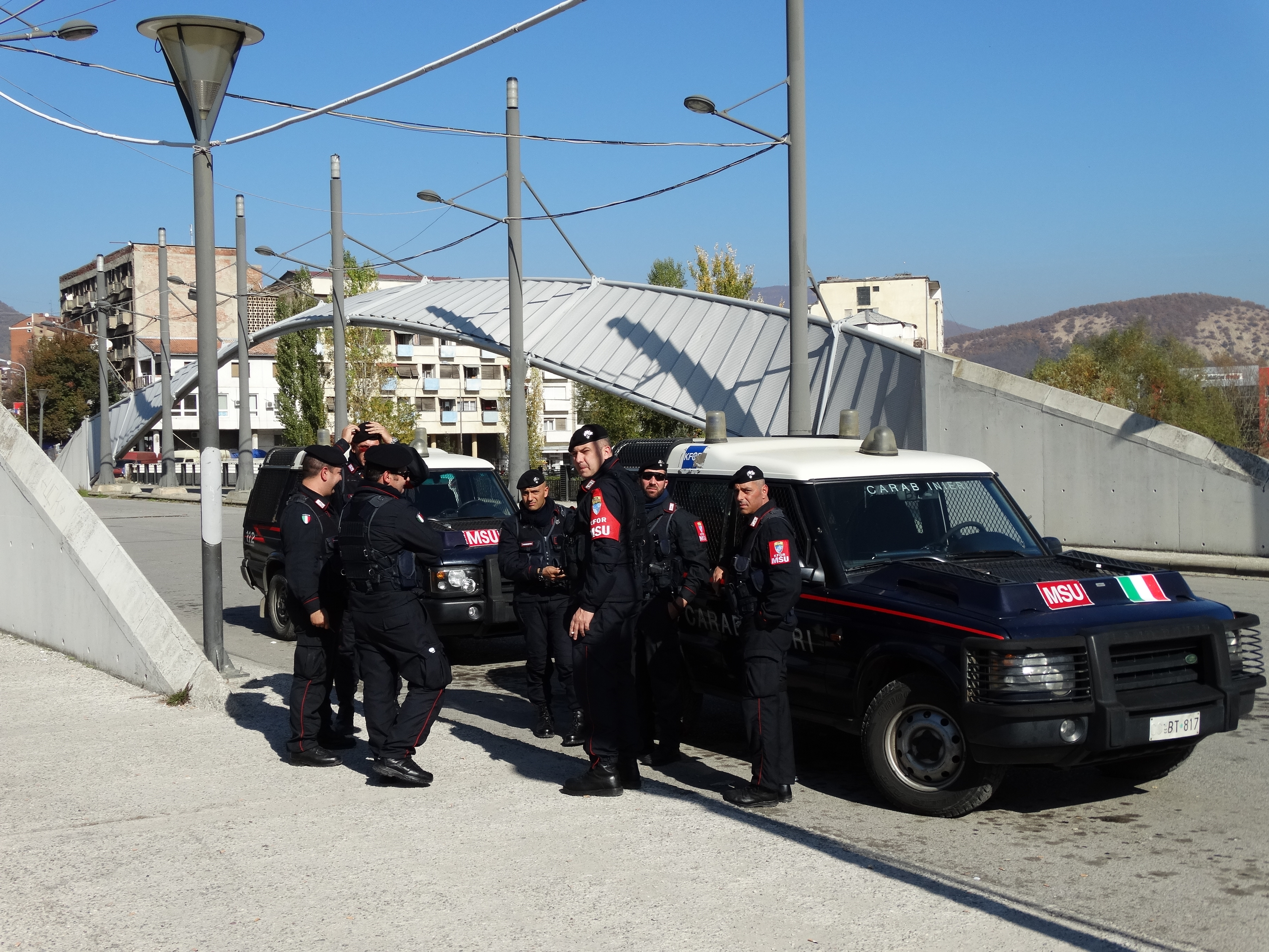 Italian Carabinieri KFOR Contingent at Ibar River Bridge - Mitrovica (Albanian Side) - Kosovo